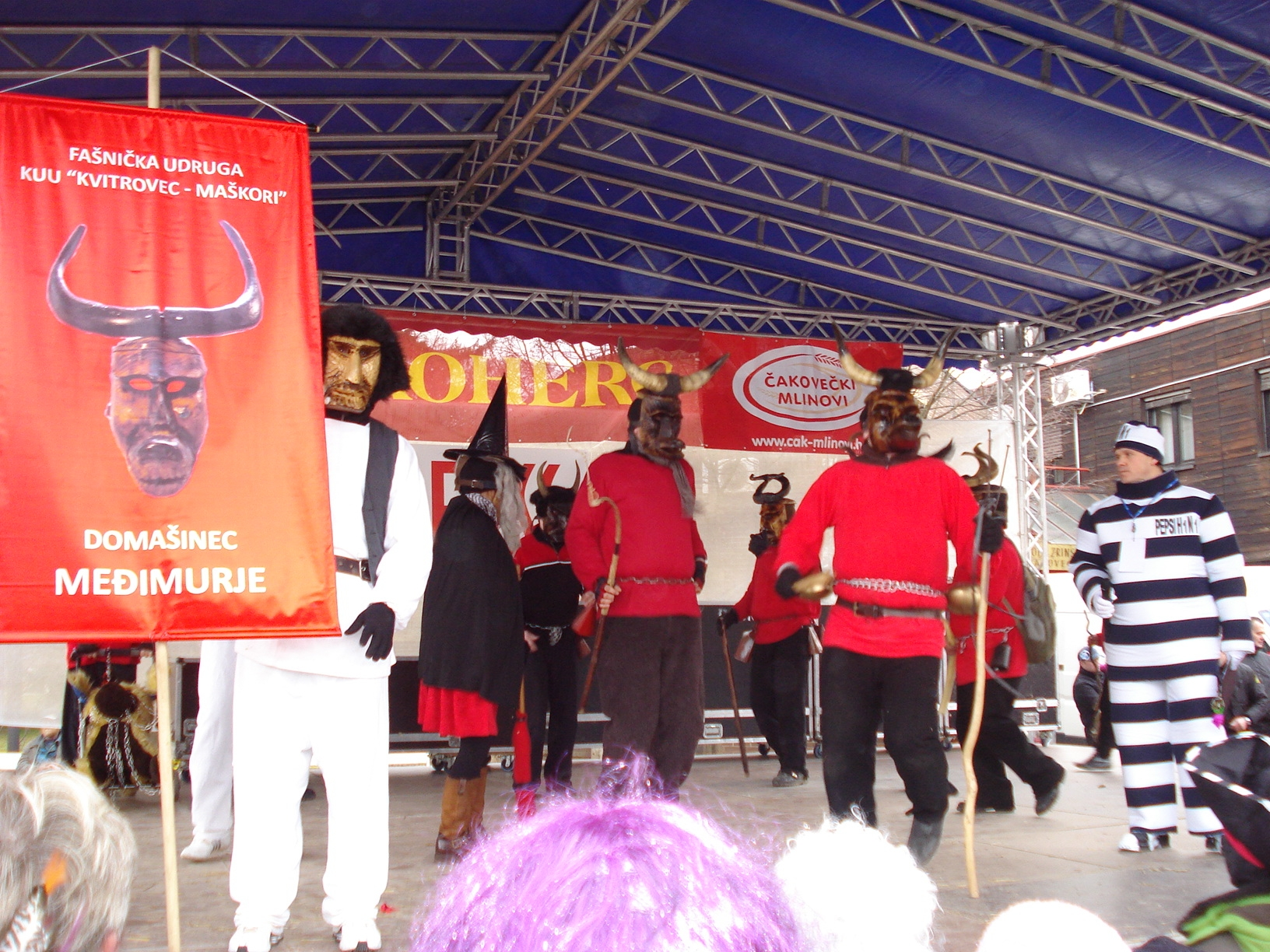 Medjimurje Carnival 2011 (Croatia)- Masquers of Kvitrovec village